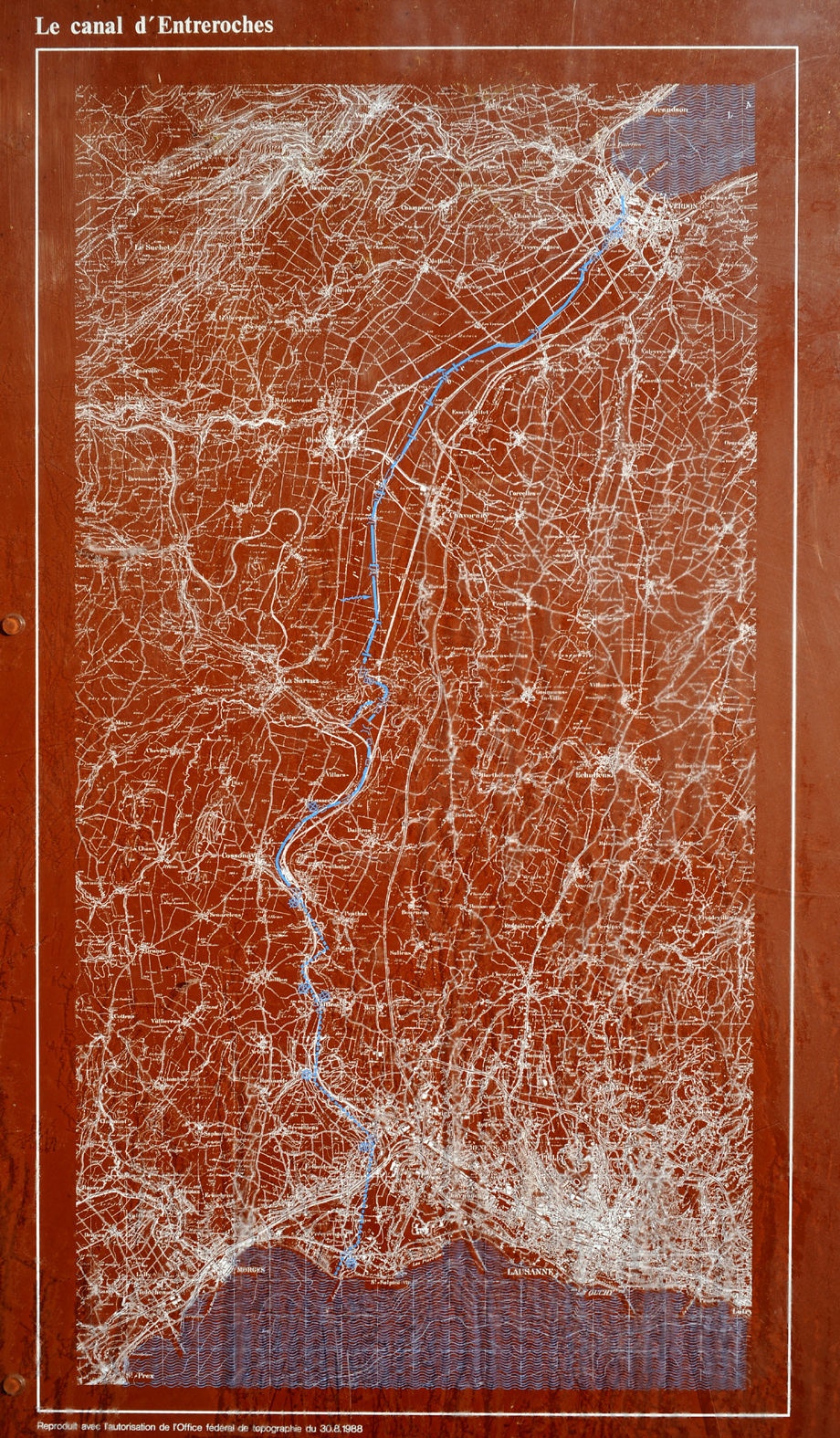 Canal d'Entreroches in the gorge of Entreroches, information board; Vaud, Switzerland. Canal characteristics between lake Neuchâtel and lake Geneva.